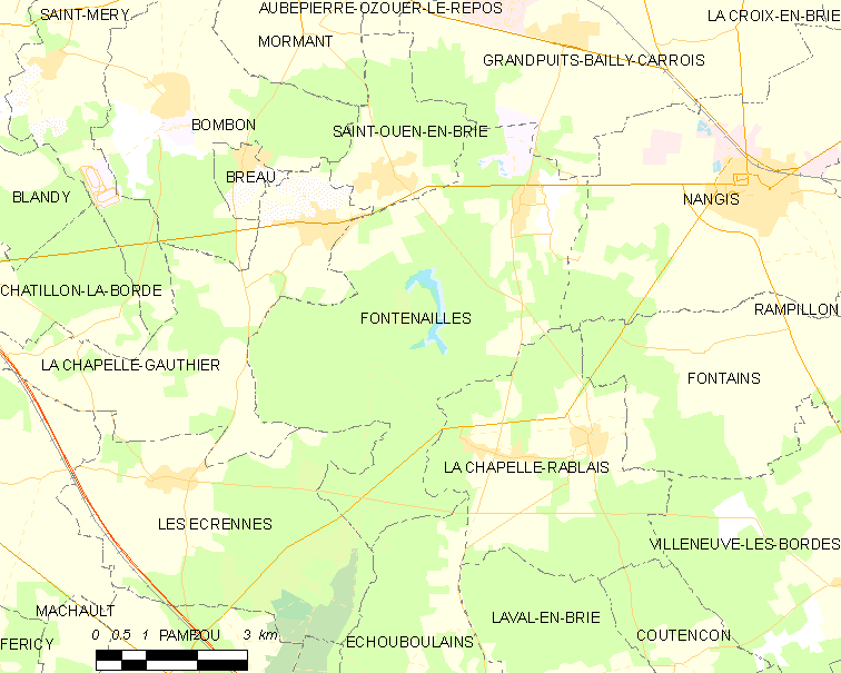 Map of French municipality Fontenailles